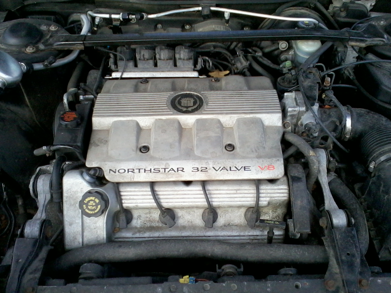 1999 Cadillac DeVille 4.6 L DOHC engine VIN 1G6KE54Y6XU7250XX